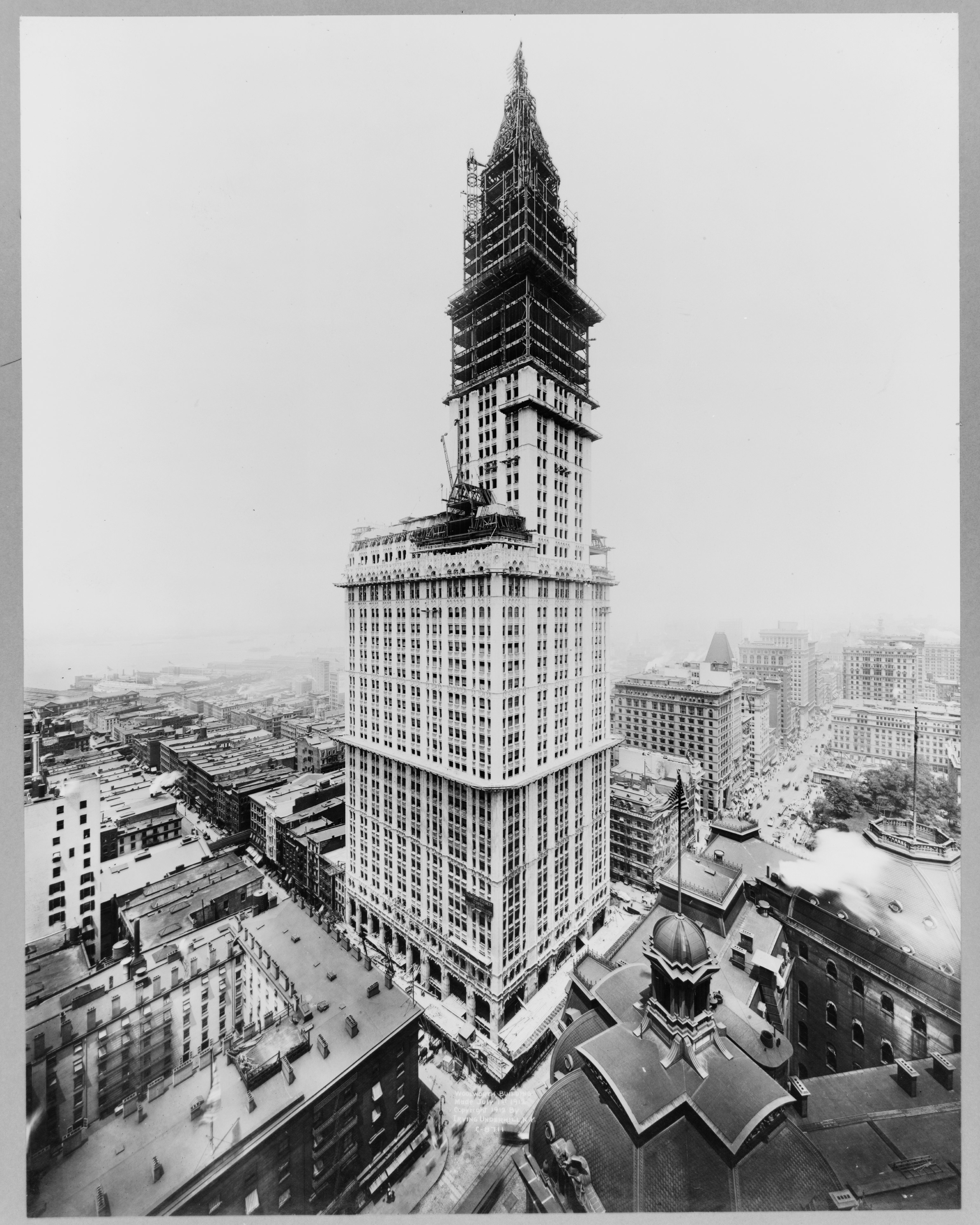 Title: Woolworth Building, made July 1st, 1912 Abstract/medium: 1 photographic. print.